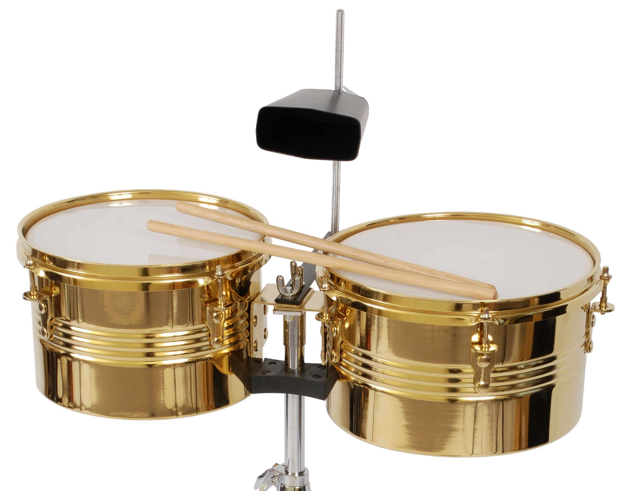 Cropped from File:Timbalesy HLTBR-1011 firmy Hayman.jpg to show sticks more clearly